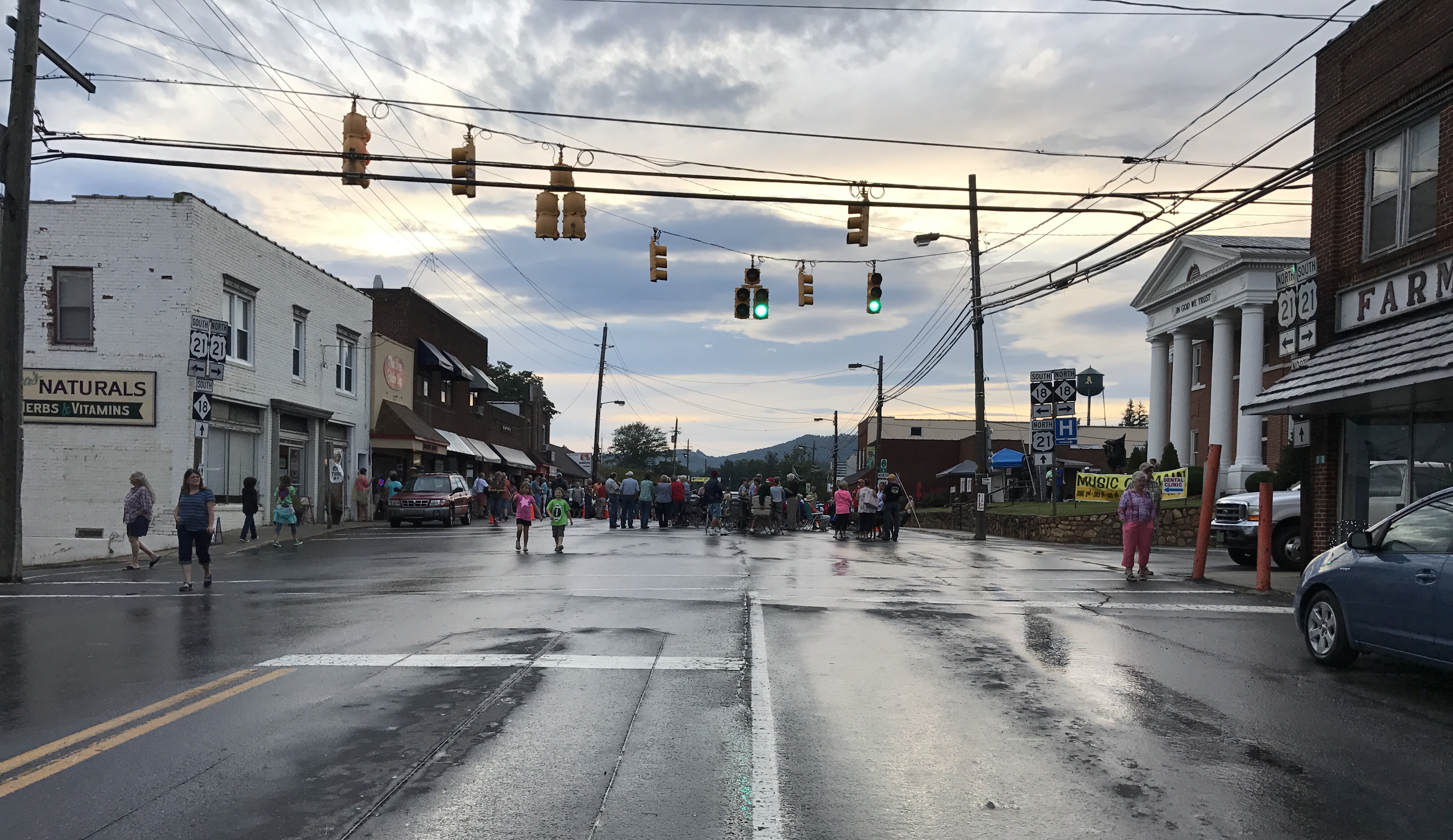 Downtown Sparta during a "Music on Main Street" event